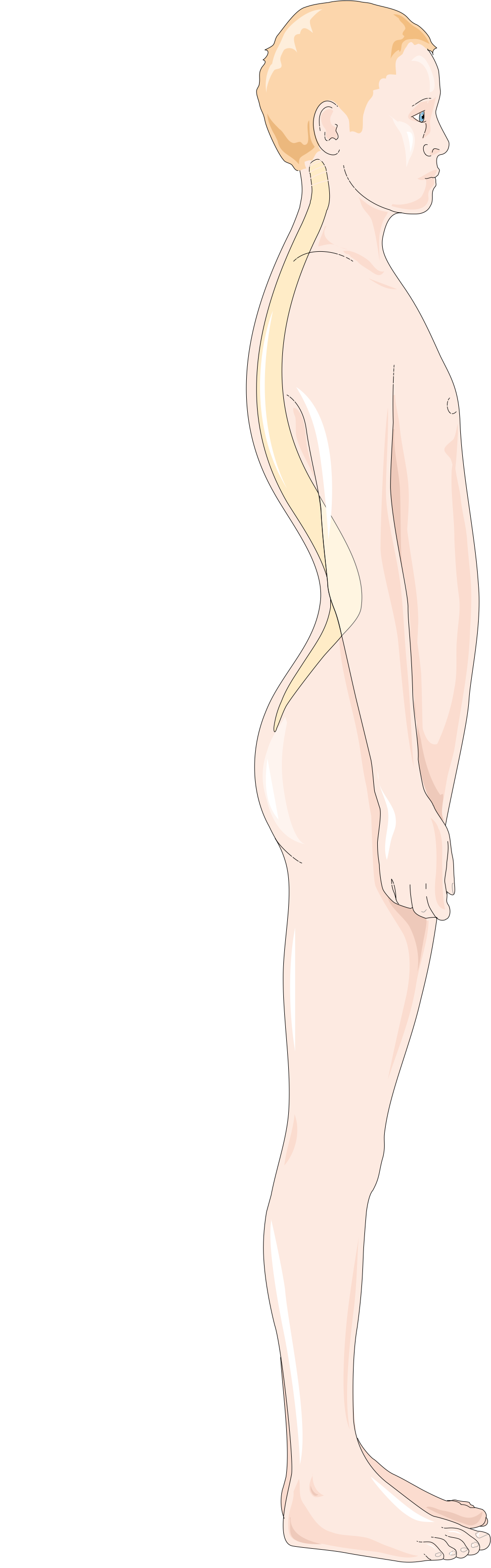 Skeleton and bones - Vertebral column disorders - Lordosis